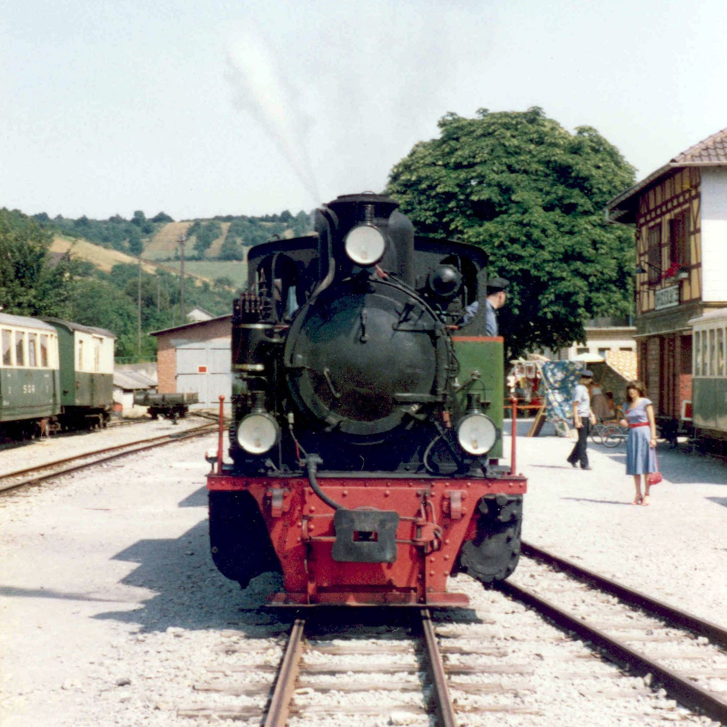 historic train on the Jagst valley railway with steam locomotive "Frank S" in Dörzbach.